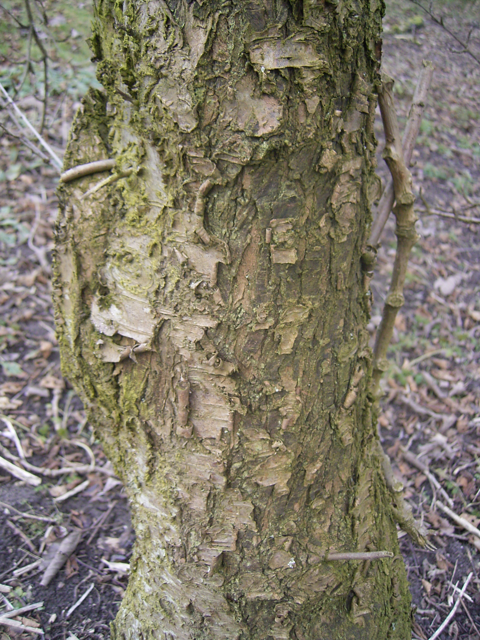 Deze foto toont de stam van de wegedoorn. Ik nam de foto op 2 maart 2006 in arboretum heempark in Delft. This picture shows the trunc of Rhamnus catharticus.